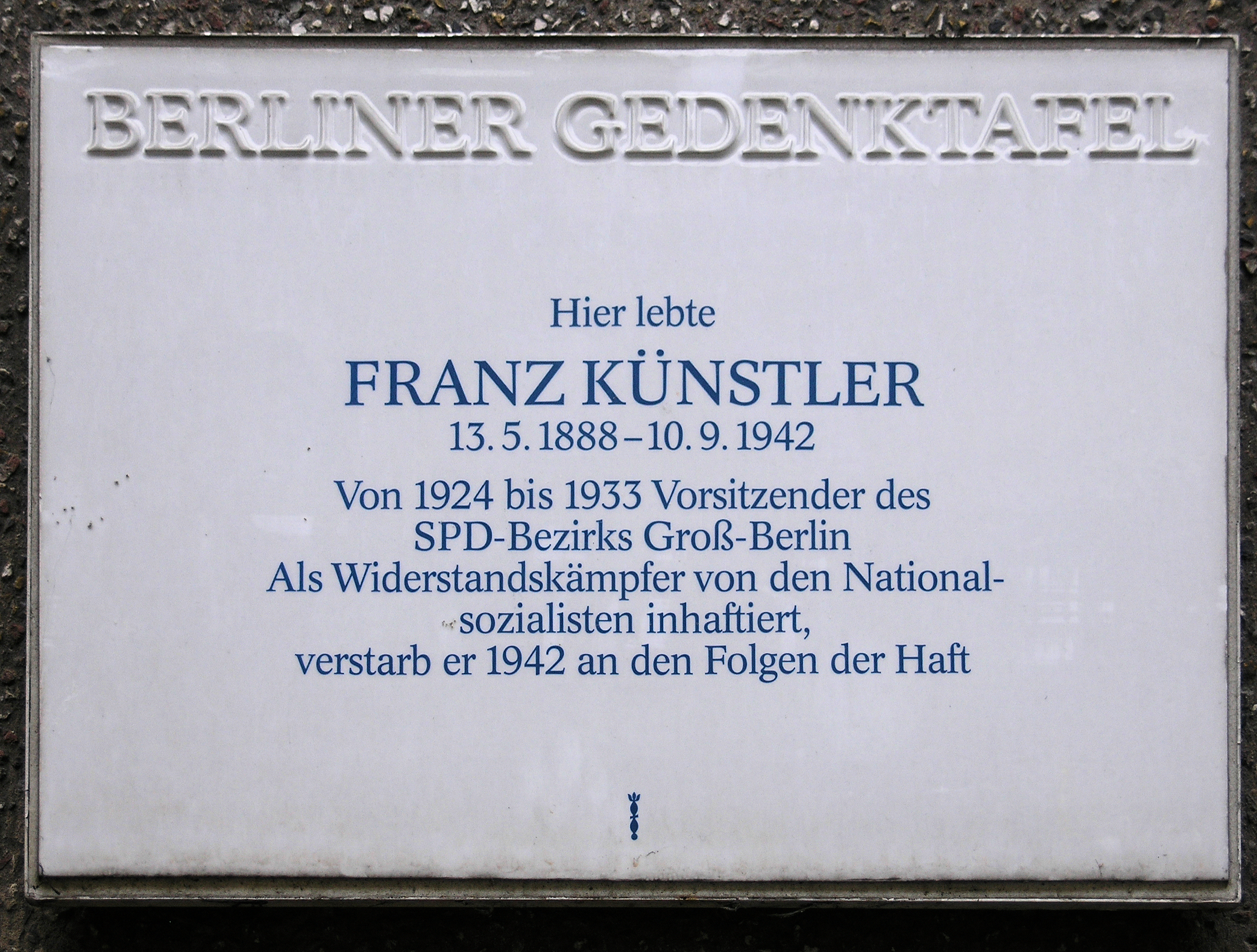 Berlin memorial plaque, Franz Künstler, Elsenstraße 52, Berlin-Neukölln, Germany